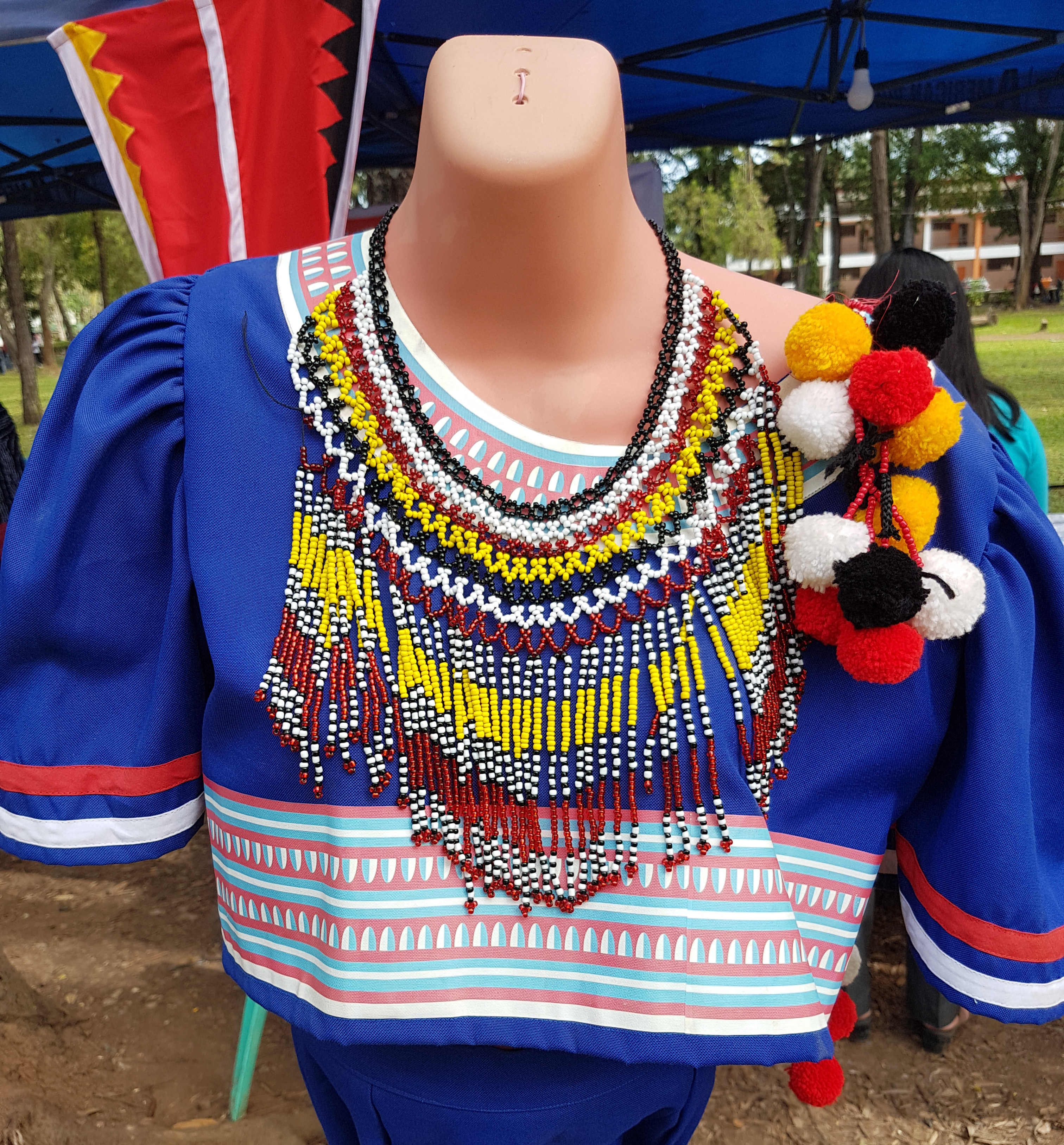 Umayamnon traditional women's attire and bali-og and headdress (Bukidnon)